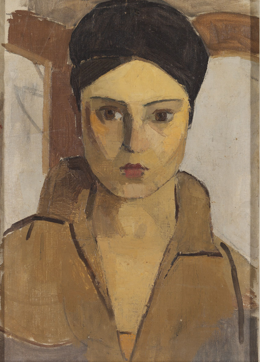 Hale (Salih) Asaf (1905-1938) a female Turkish painter of Georgian descent.